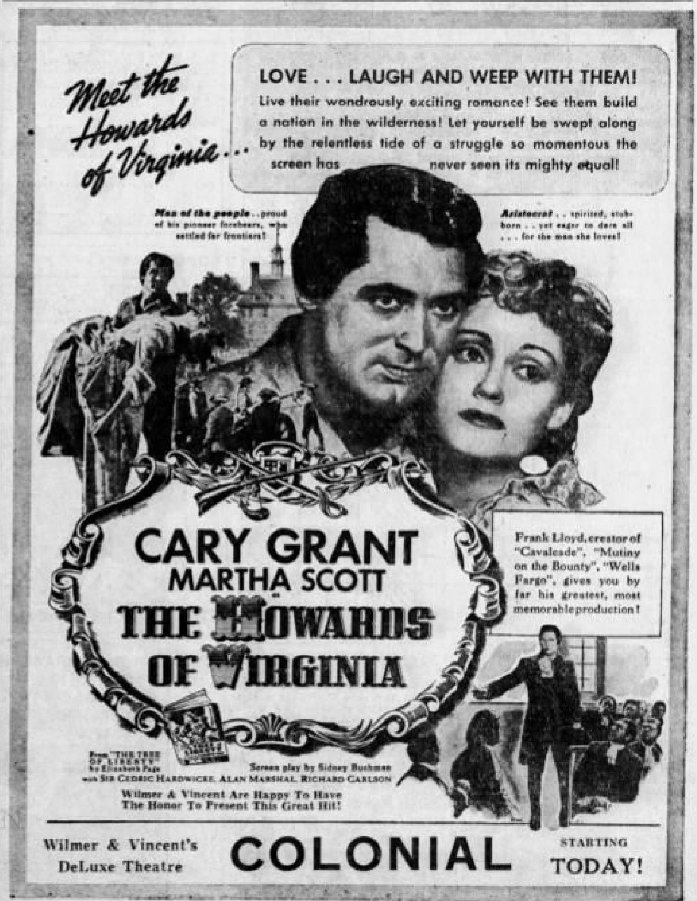 Colonial Theater advertisement for the American film The Howards of Virginia (1940) - 3 Oct. 1940 Morning Call, Allentown PA